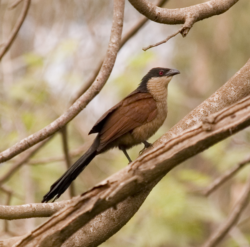 (Centropus senegalensis). Senegal Coucal on a tree in Senegal, Africa.